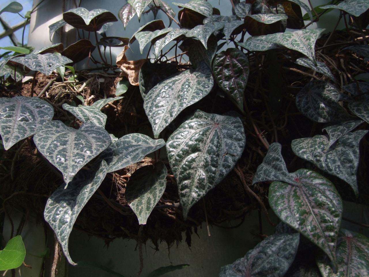 Piper_ornatum